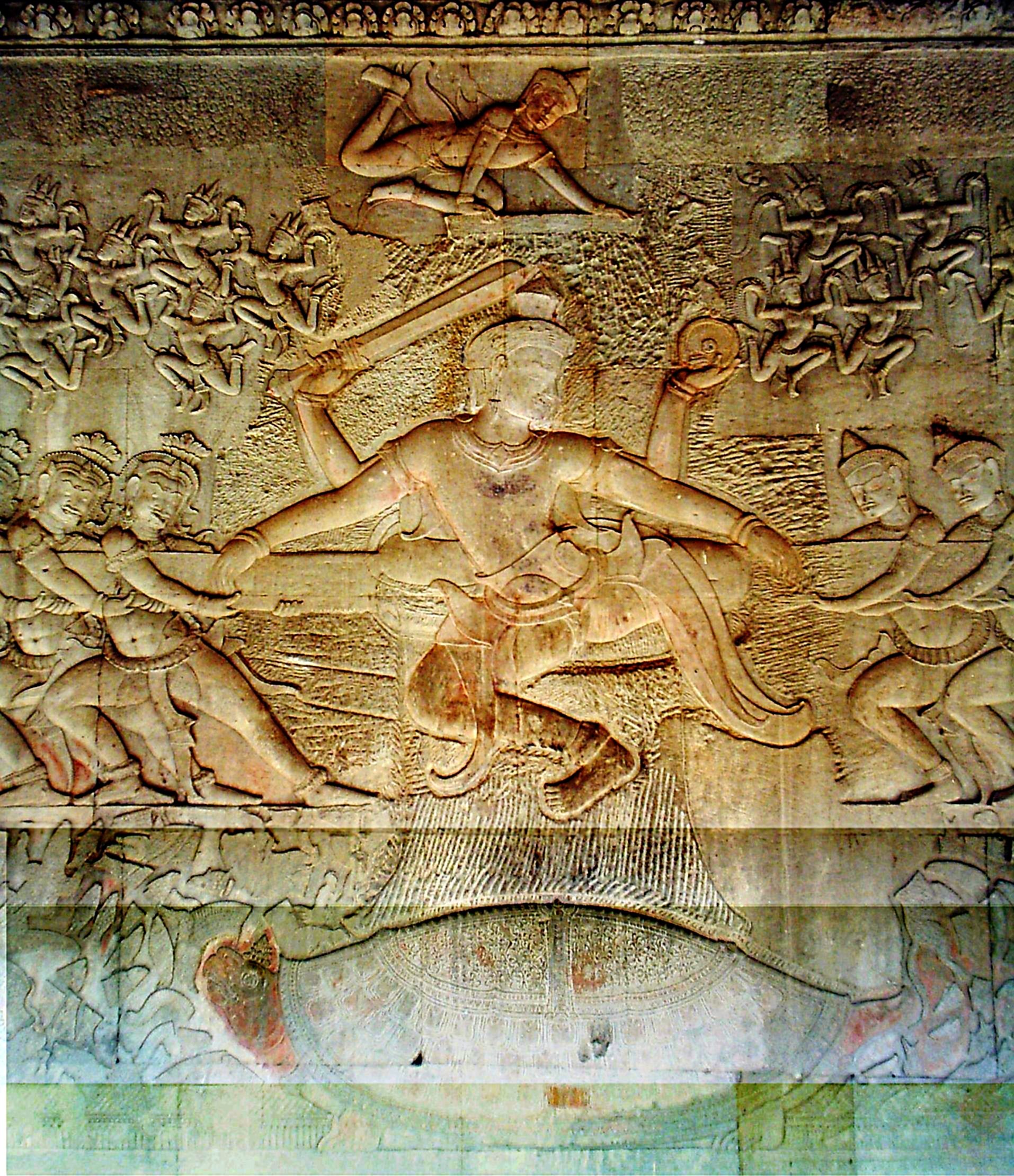 The Churning of the Ocean of Milk, depicted in bas-relief on the south of the east wall of Angkor Wat's third enclosure.